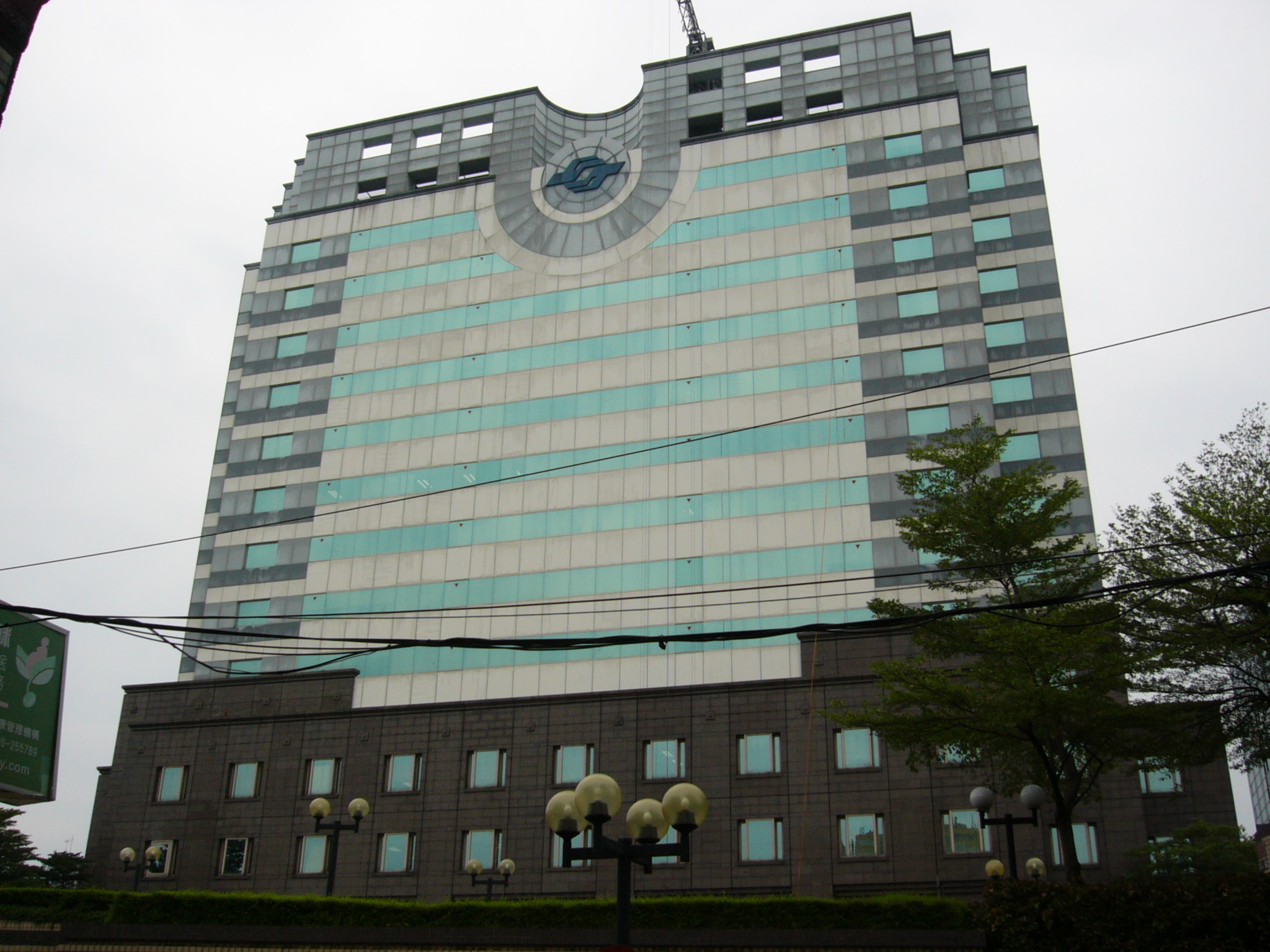 The front view of Rapid Transit Administration Building.中文（台灣）: 捷運行政大樓正面外觀。